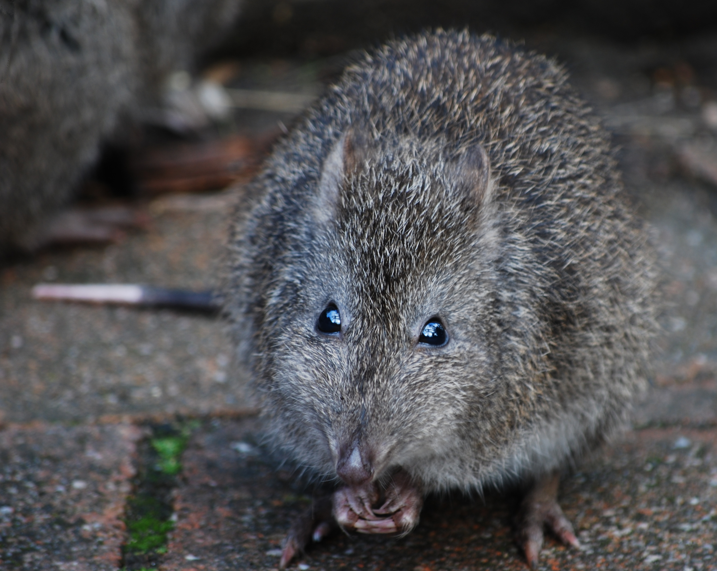 Long-nosed Potoroo (Potorous tridactylus) being curious about the camera. At Cleland Wildlife Park, South Australia